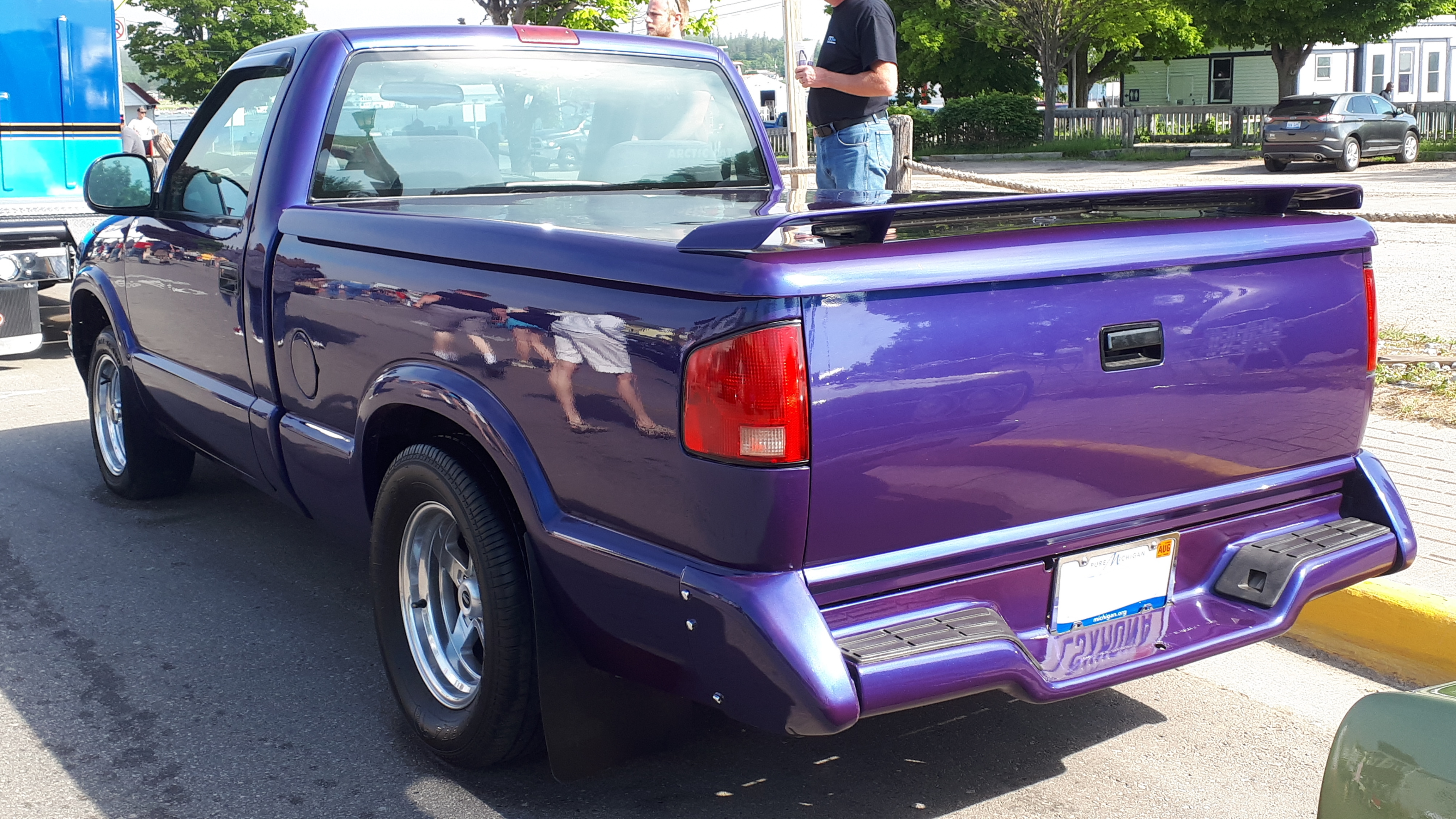 1994-1997 GMC Sonoma photographed in St. Ignace, Michigan at the annual St. Ignace car show weekend.